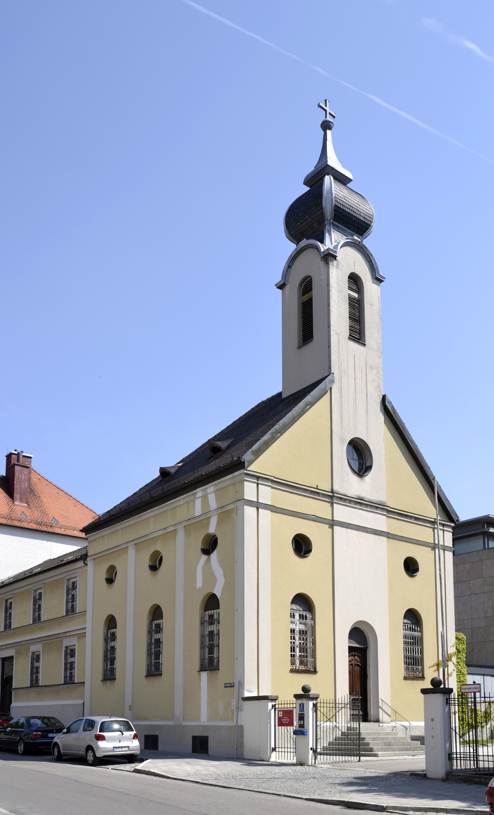 The roman-catholic church Maria Rosenkranzkönigin in Munich.